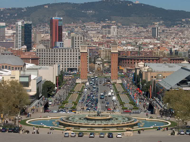 Magic Fountain of Montjuïc